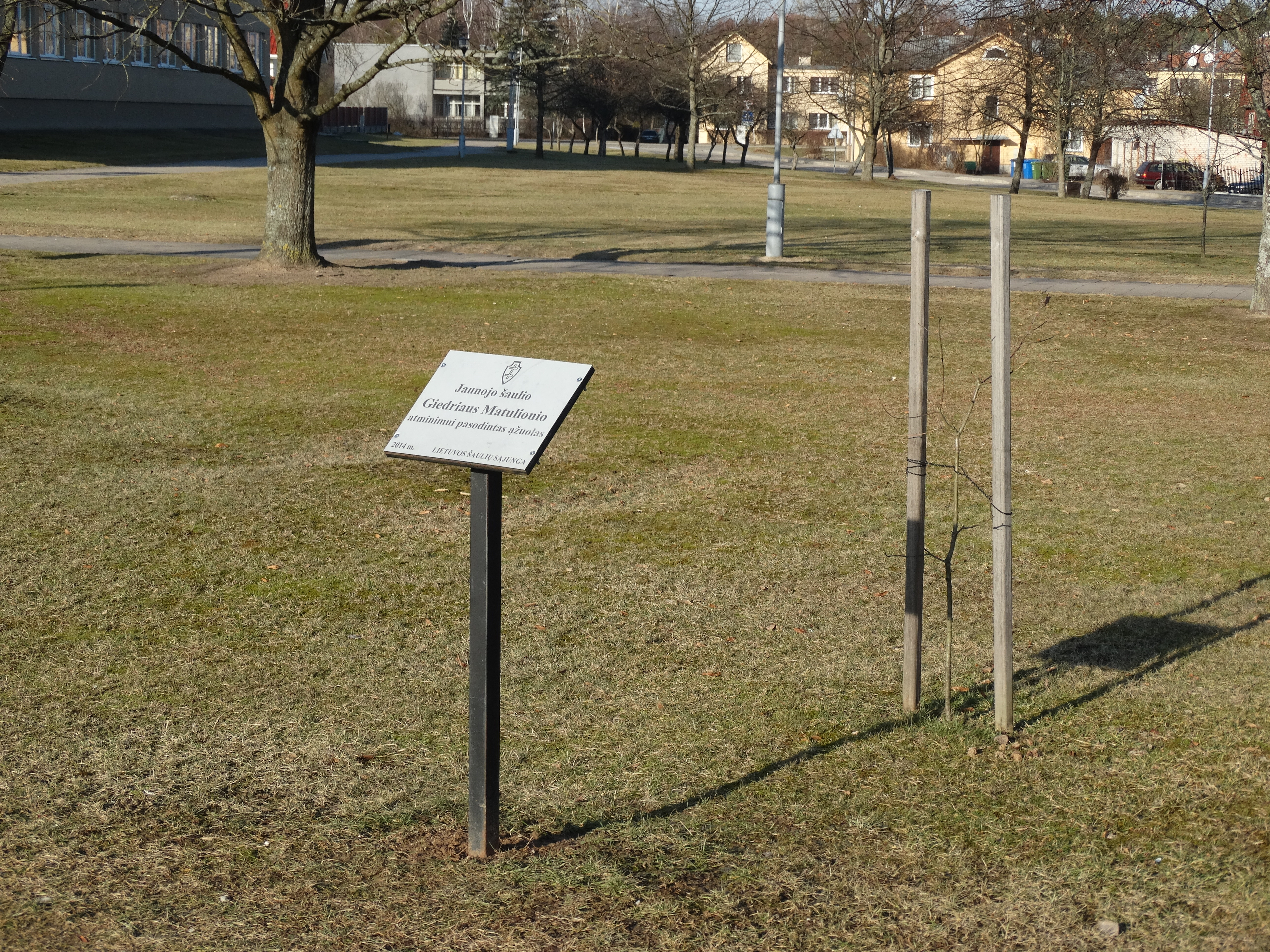 Giedrius Matulionis oak, Druskininkai, Lithuania